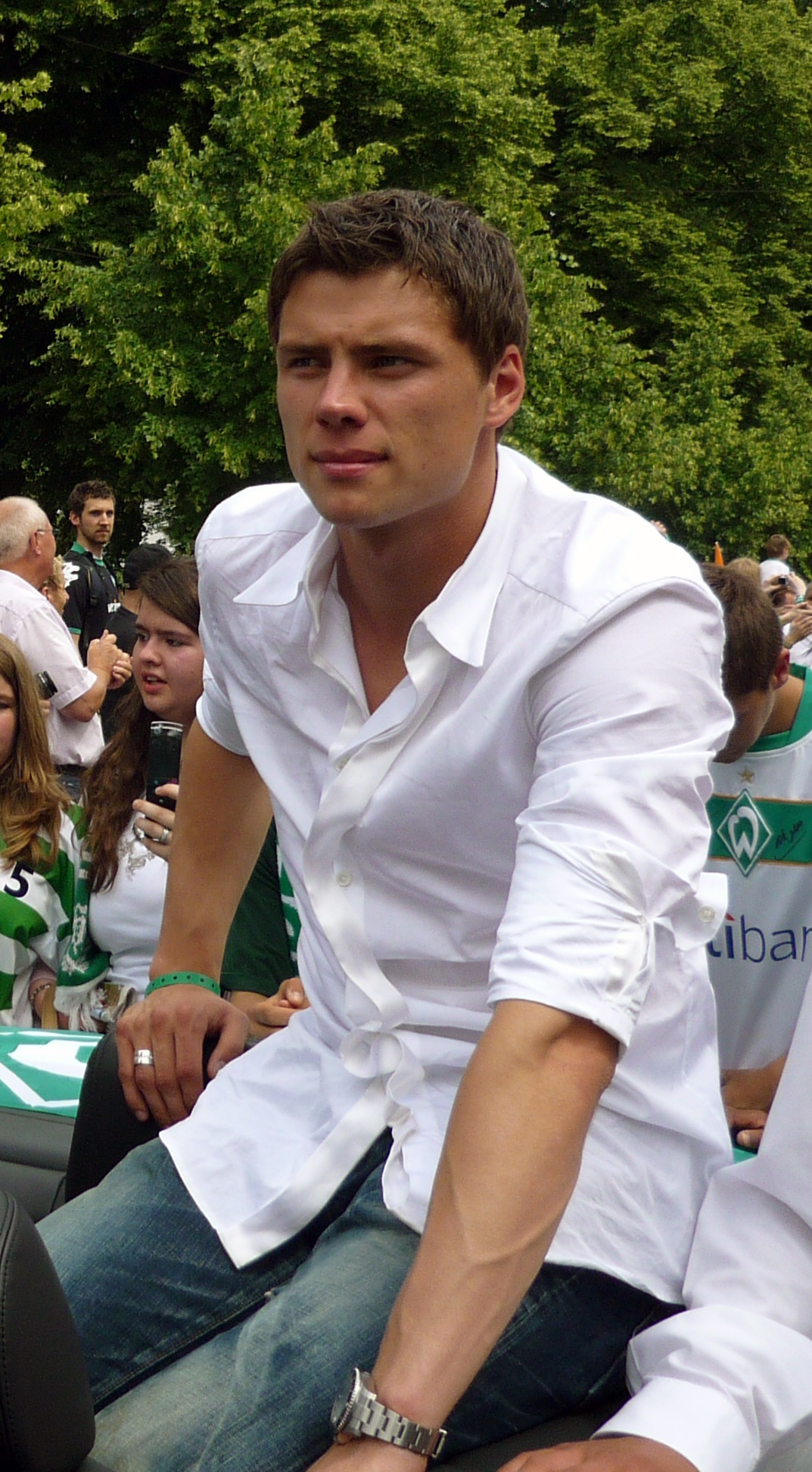 Sebastian Boenisch (Werder Bremen), celebrating the DFB-Pokal's victory.